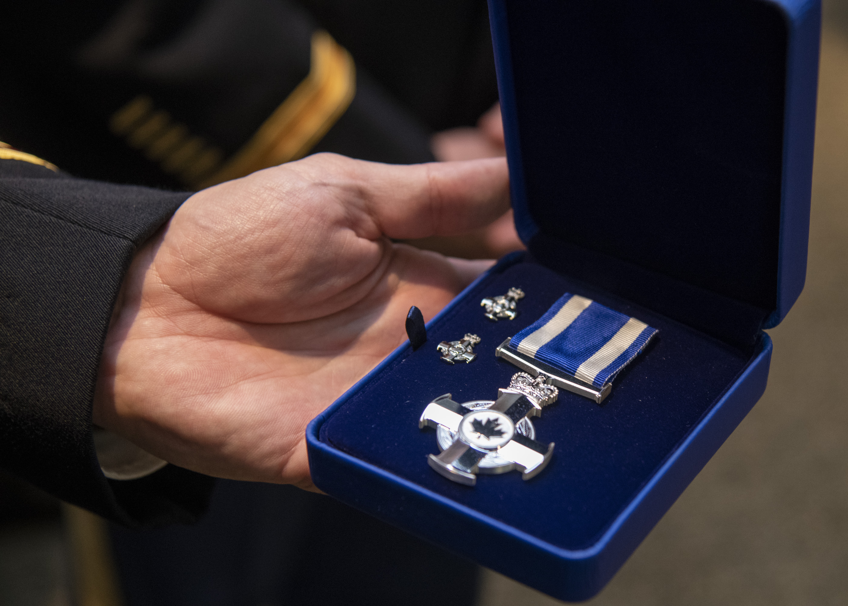 On behalf of the Governor General, Her Excellency the Right Honourable Julie Payette, Candian Gen. Jonathan Vance, Chief of the Defence Staff, presents the Military Service Cross, Military Division Cross, to Marine Corps Gen. Joe Dunford, chairman of the Joint Chiefs of Staff, during an award ceremony at the Halifax International Security Forum Nov. 16, 2018. (DOD photo by Navy Petty Officer 1st Class Dominique A. Pineiro/Released)